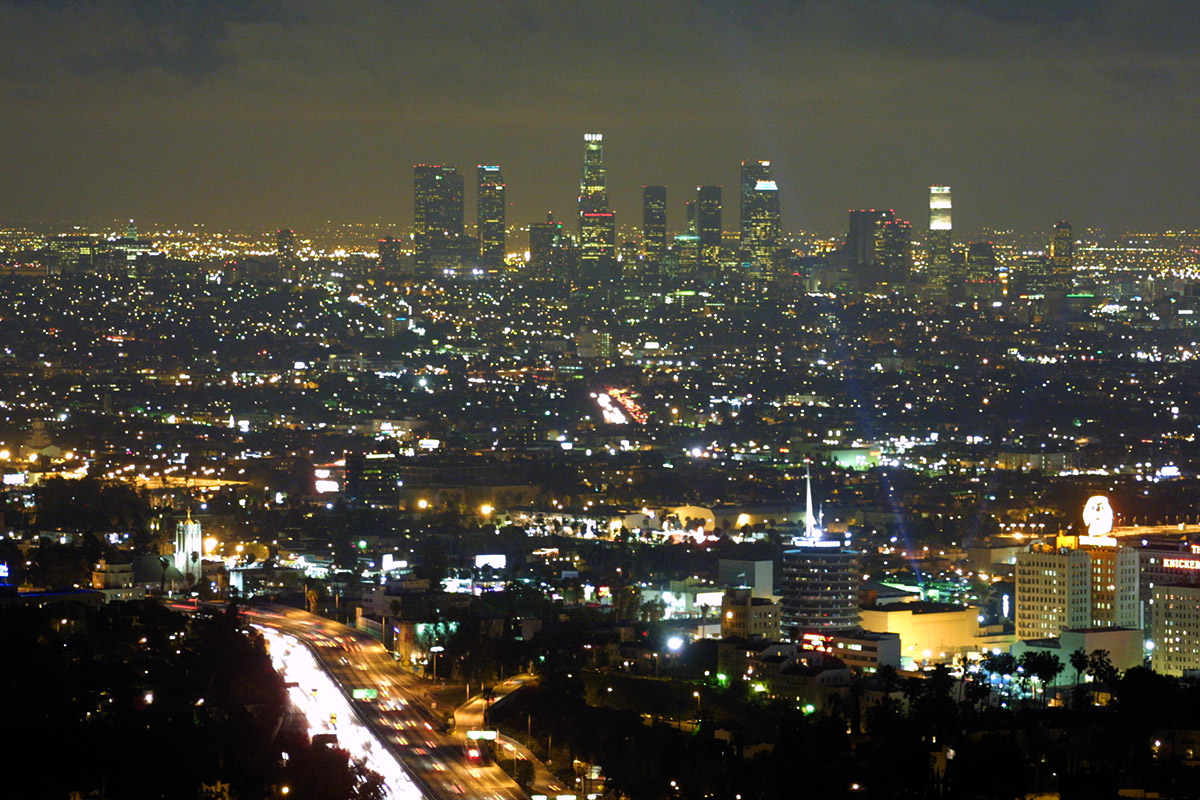 Downtown L.A. at night, as seen from the Hollywood Hills